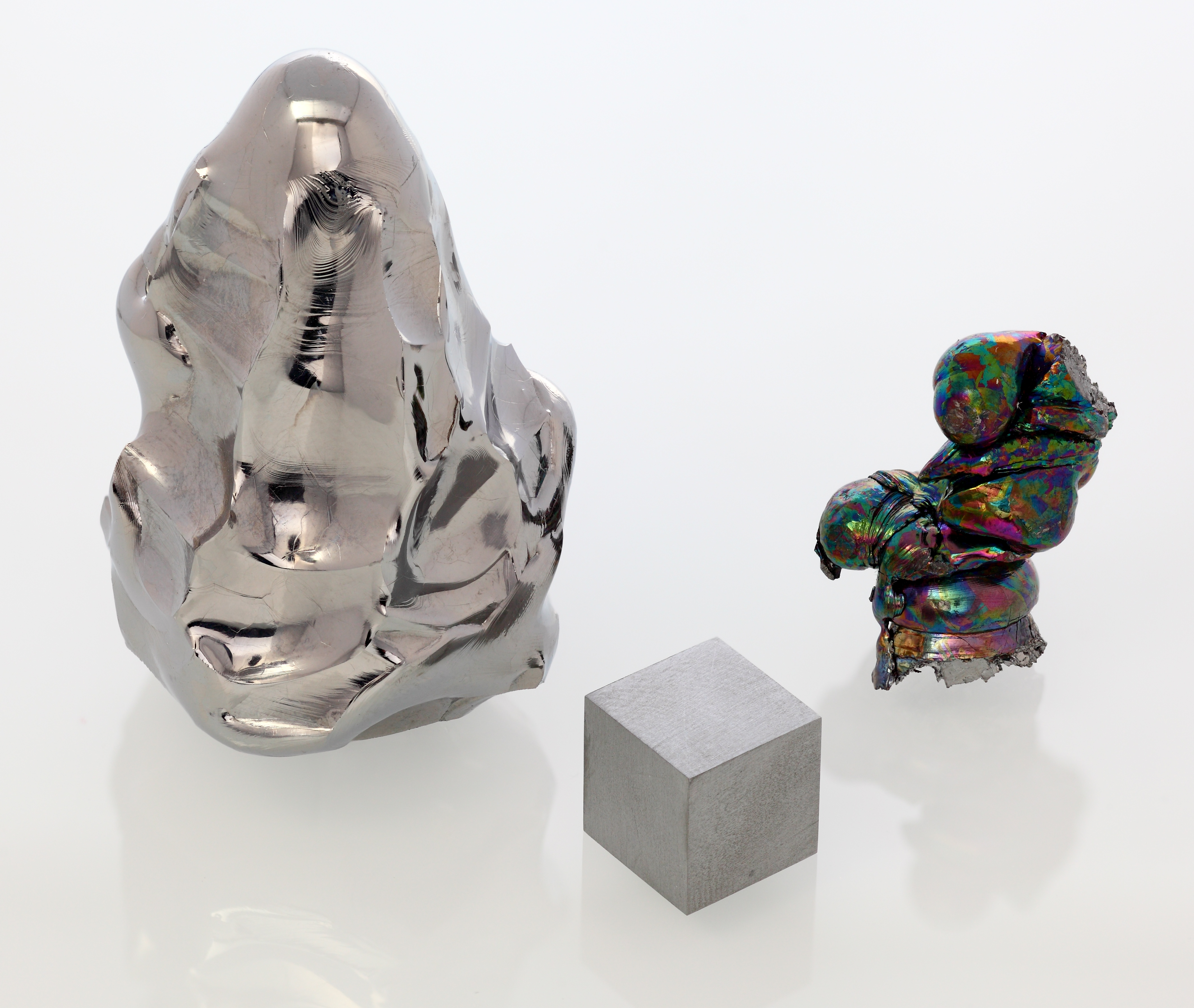 Pure (99.98 %), Melted tip of a hafnium consumable electrode used in an ebeam remelting furnace (sample from the collection of Ethan Currens), oxidized hafnium ebeam remelted ingot (color from thin film effects in the oxide layer), and additional 1 cm3 hafnium cube for comparison. The metal piece-photo was taken on a white glass plate.